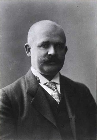 Danish Social Democrat, mayor of Copenhagen, MP Christian Sophus Christiansen (1865-1919)